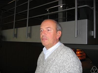 Photo of Corrado De Concini